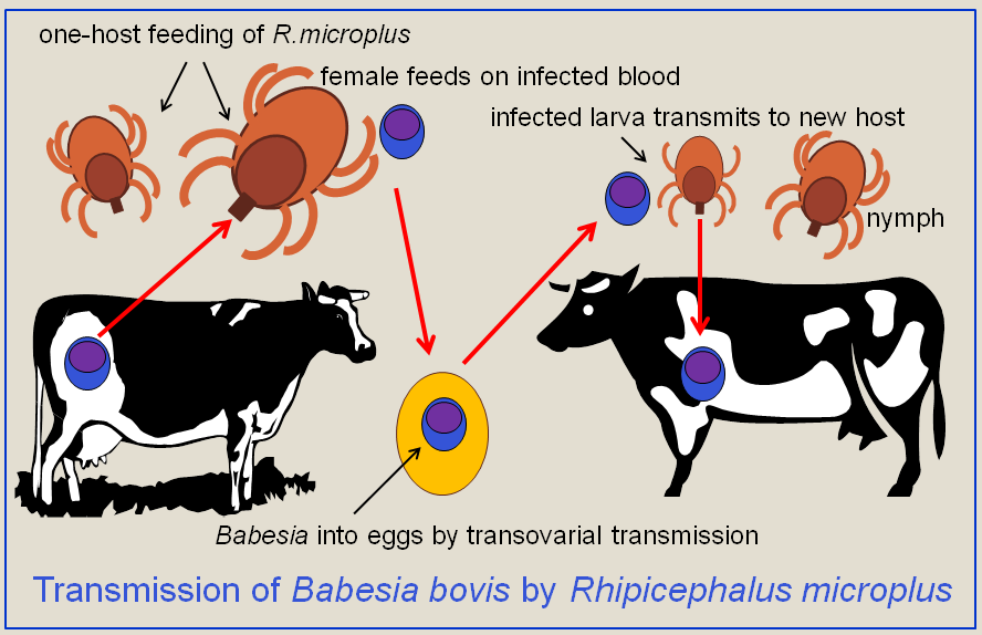 Diagram of basic paths of transmission of a Babesia protozoan parasite by a one-host hard tick such as Rhipicephalus (Boophilus) microplus.